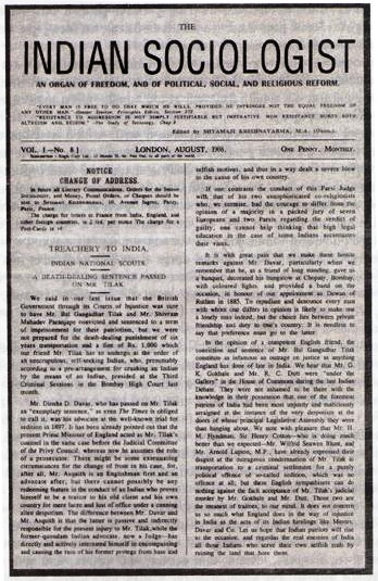 It is a newspaper published by indian nationalist Shyamji Krishna Varma in London. Other information Its page of Newspaper dated september, 1908 printed on itself. Its copyright must have expired by now.